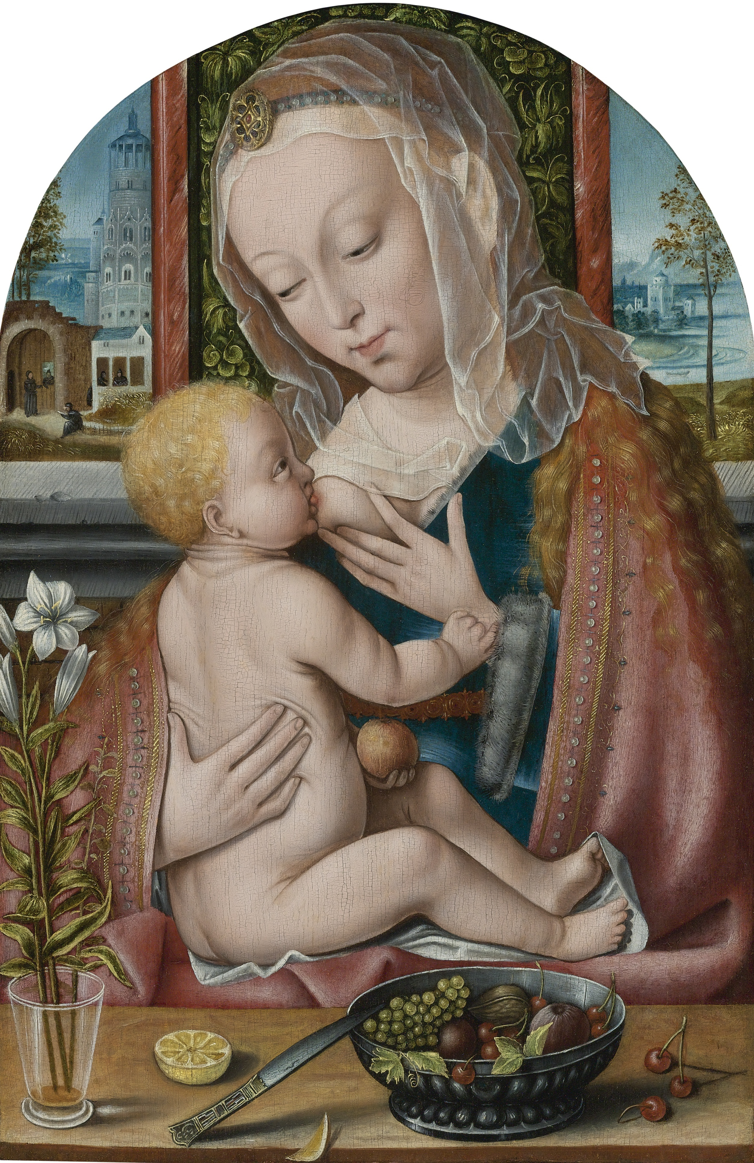 This image is available from the Netherlands Institute for Art Historyunder digital ID 38453. This tag does not indicate the copyright status of the attached work. A normal copyright tag is still required. See Commons:Licensing.